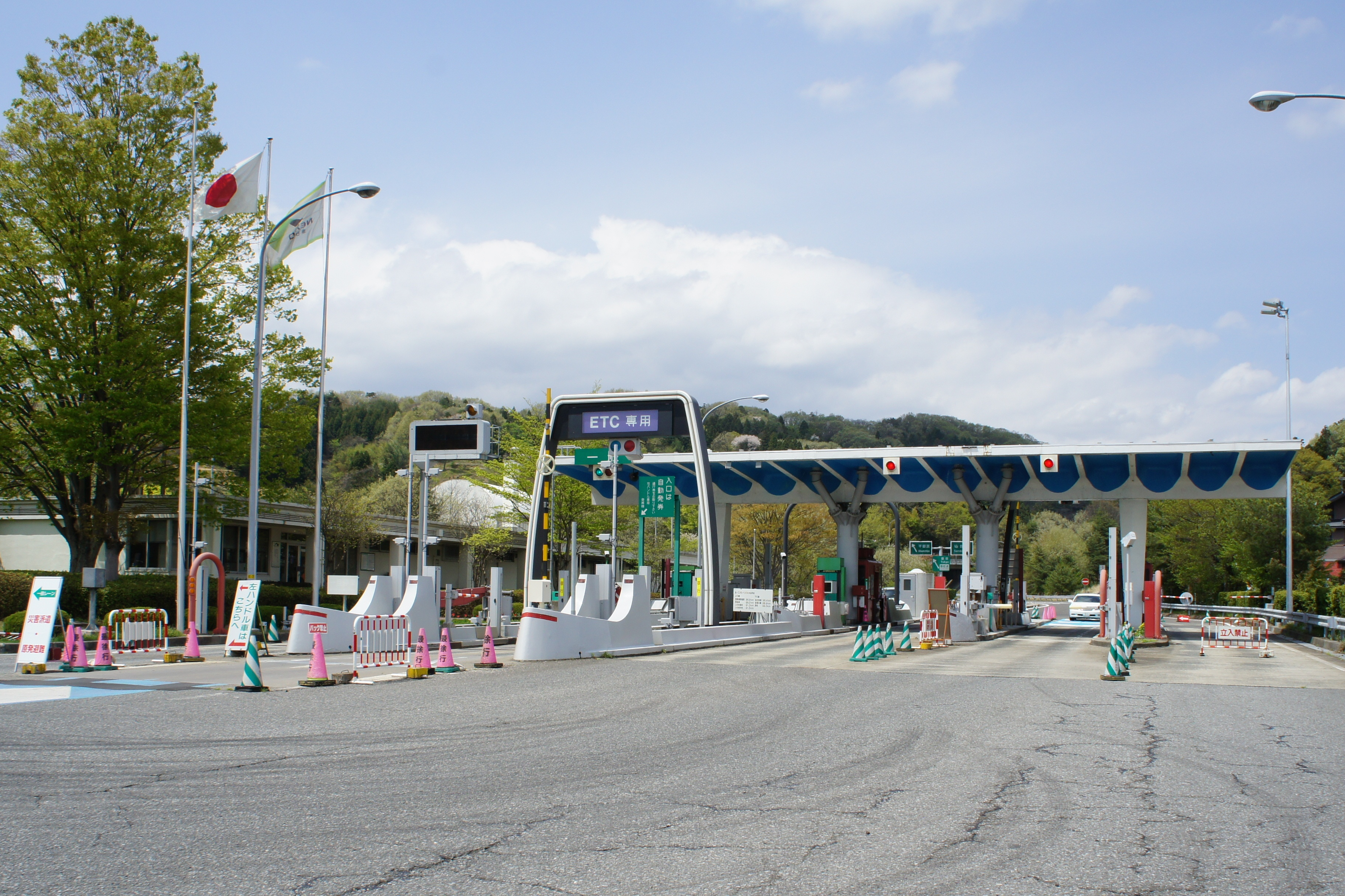 Nihonmatsu Interchange, Nihonmatsu, Fukushima, Japan